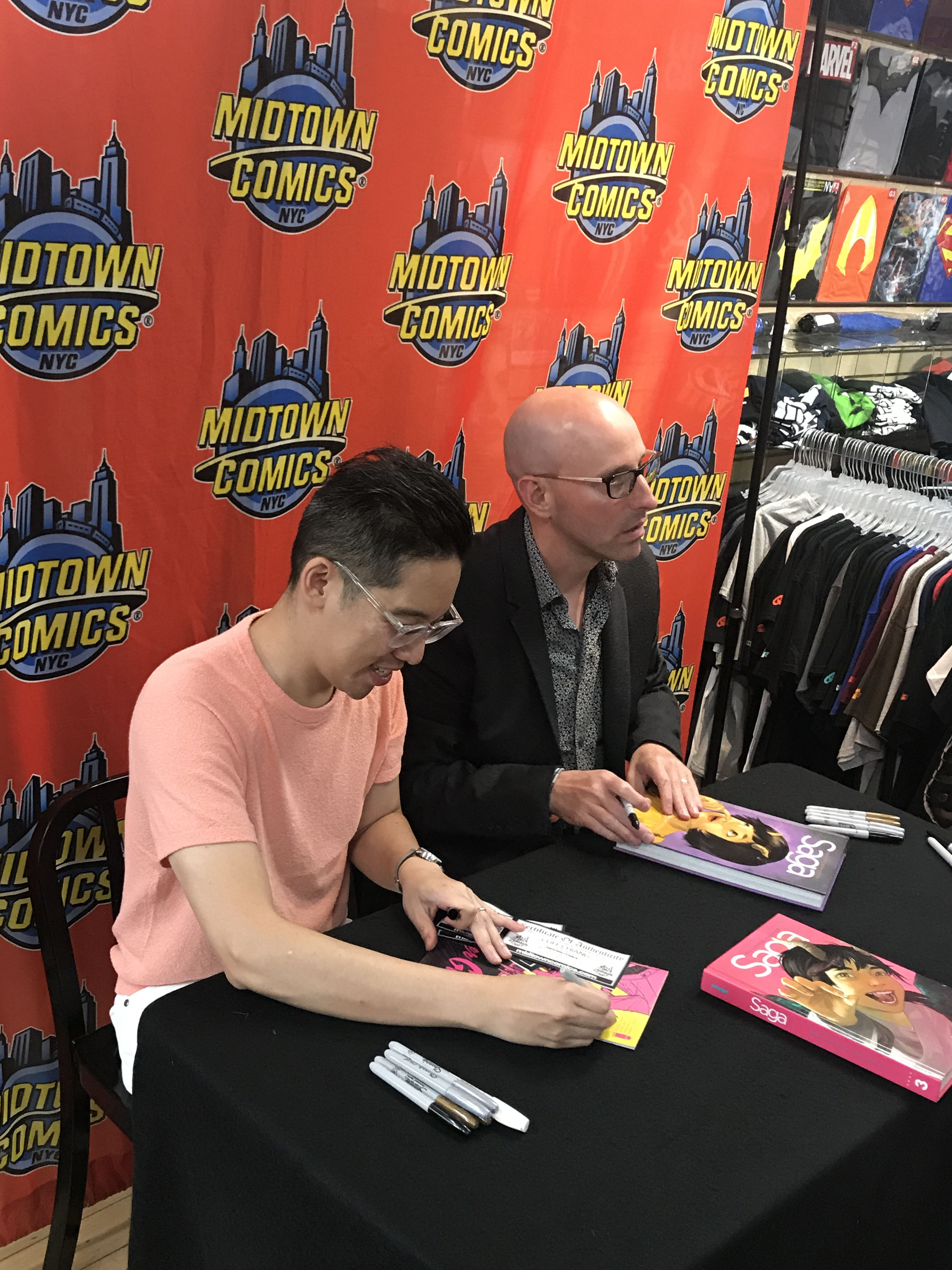 Comics artist Cliff Chiang (left) and comics and television writer Brian K. Vaughan (right) at an August 1, 2019 book signing for Paper Girls #30 (July 2019), the final issue of that series, at Midtown Comics Downtown in Lower Manhattan. In the photo, Vaughan is signing a fan’s copy of Saga, another series written by him. This photo was created by Luigi Novi. It is not in the public domain, and use of this file outside of the licensing terms is a copyright violation.